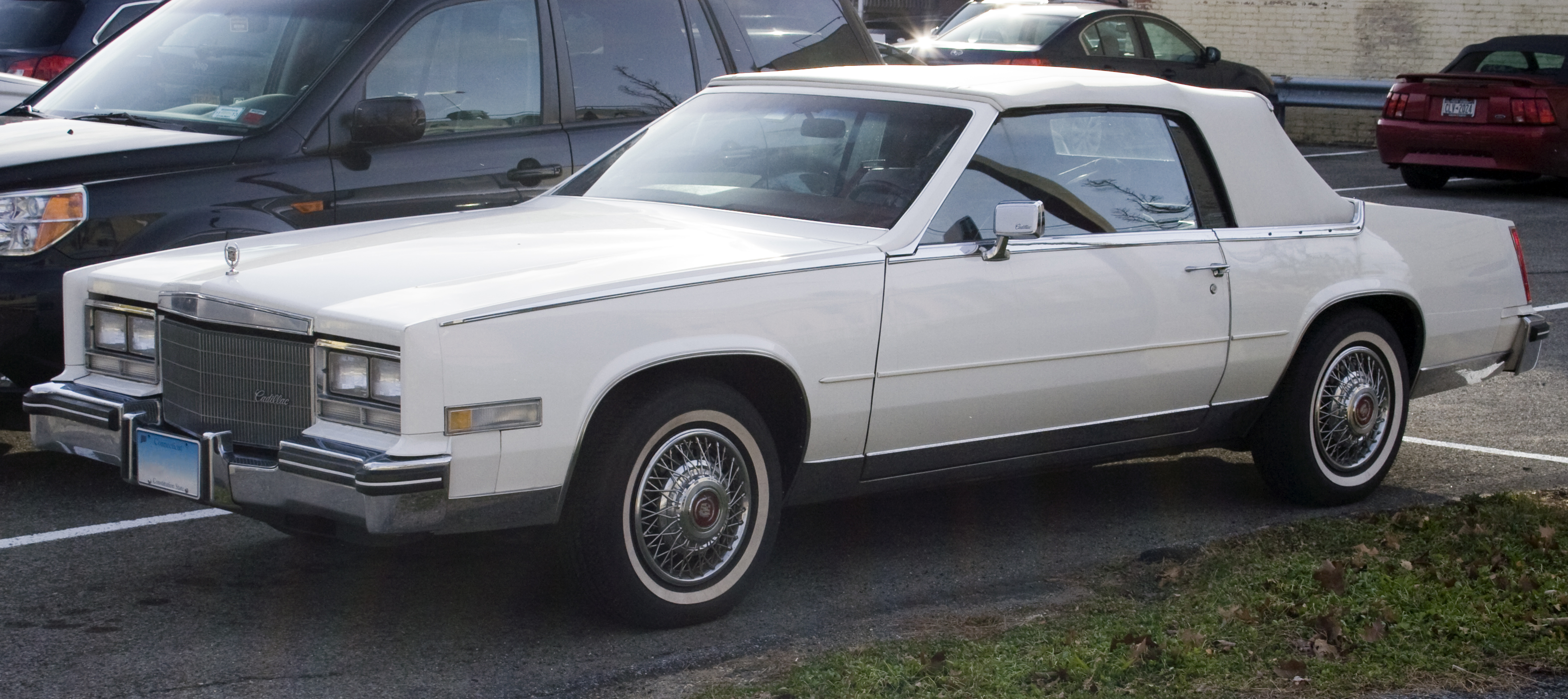 1984-1985 Cadillac Eldorado Convertible